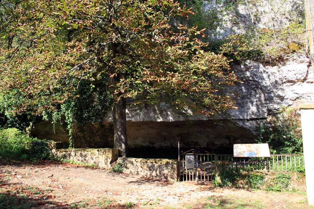 Cro-Magnon rockshelter, les Eyzies, Dordogne, France